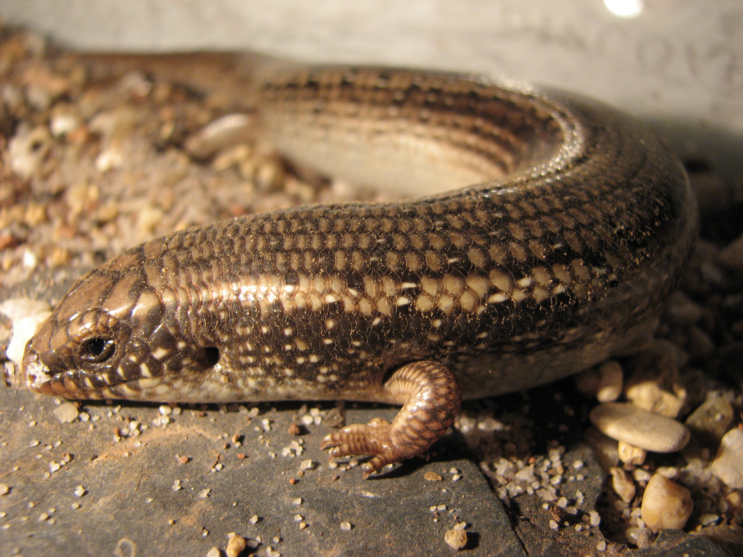 Ocellated skink